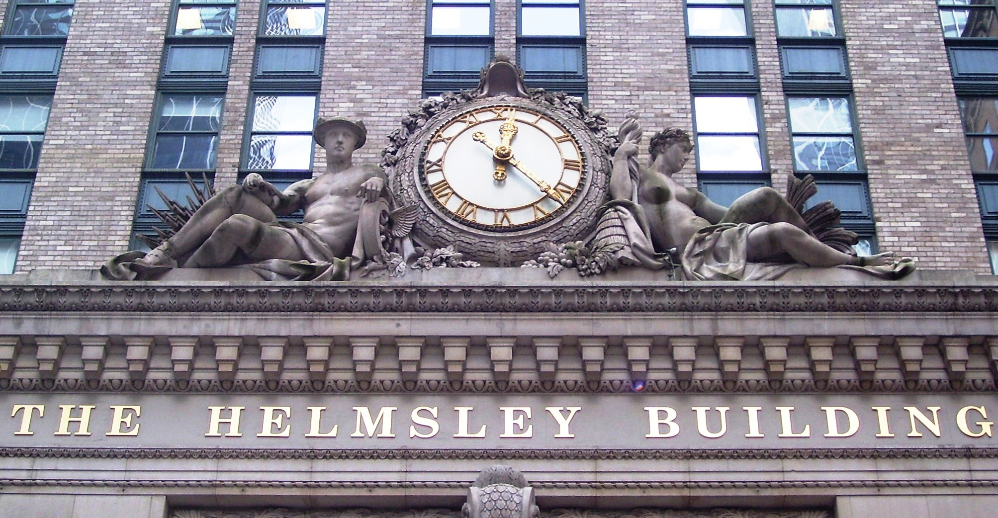 Sculptures and clock over the entrance to the Helmsley Building.